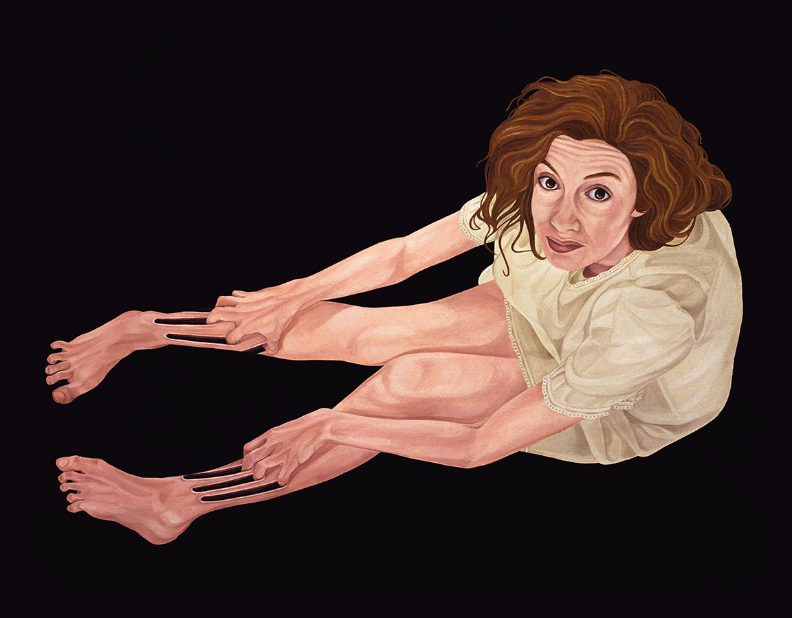 "Untitled (monsters)", 1997, oil on linen, Marina Núñez